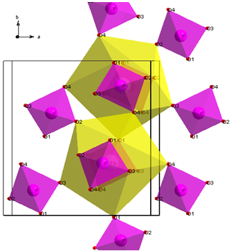 The monazite structure. (LREE)O9 nine-vertex polyhedra and PO4 tetrahedra linked by oxygen atoms into a 3D network